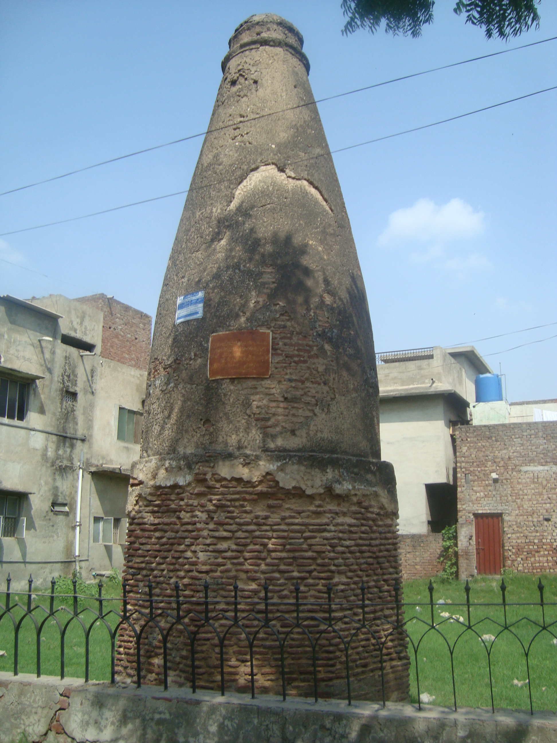 One Kos Minar This is a photo of a monument in Pakistan identified as the PB-75